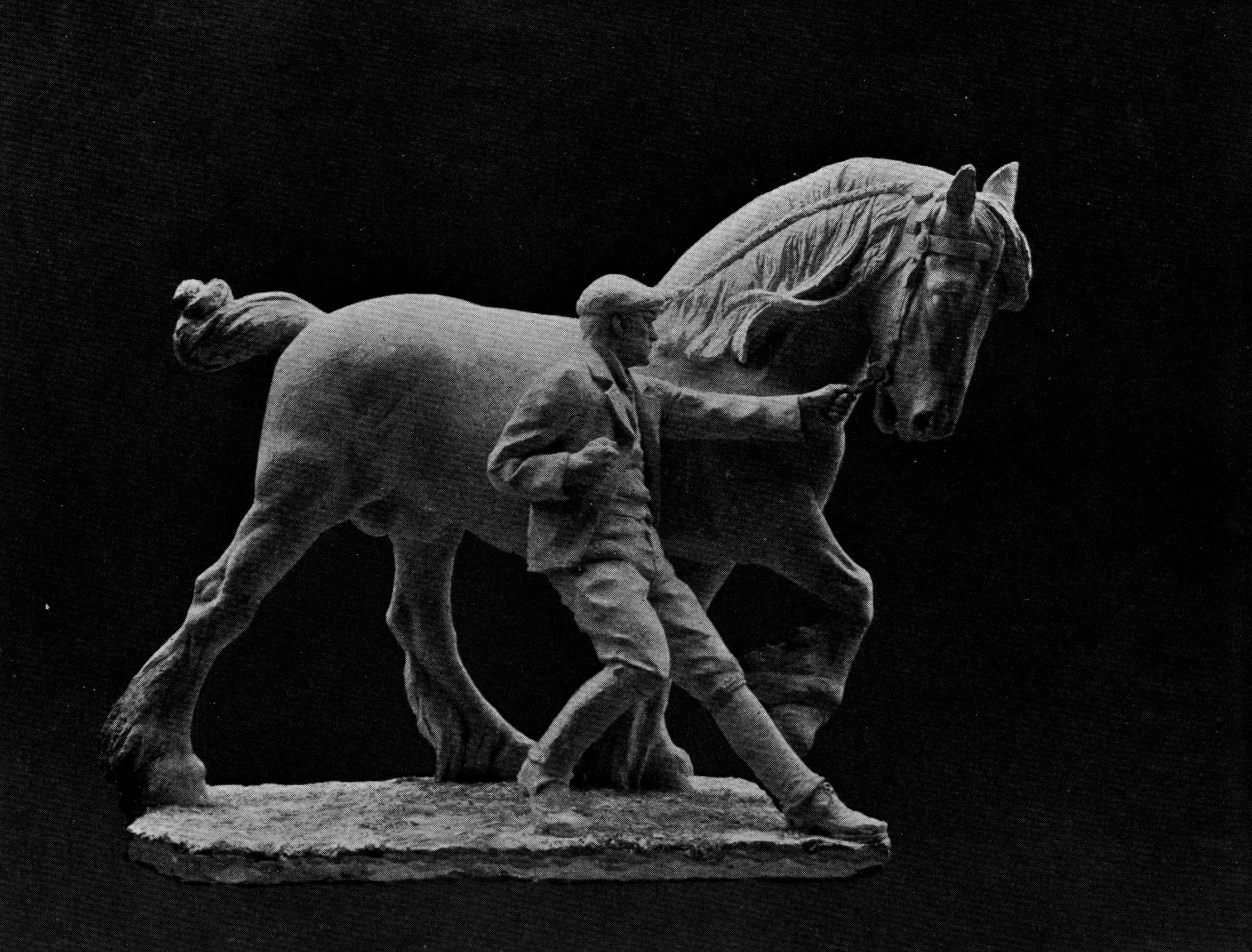 Original caption: "Horse Tamer - This is also called "Stallion and Groom." It is by Frederick G. Roth of New York. A powerful percheron stallion is being led out of the stable by a groom."